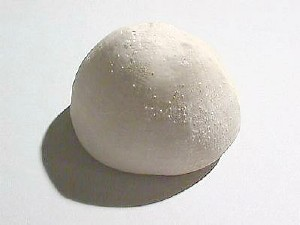 The fossil echinoid Echinocorys taken by Dlloyd. "Echinocorys sp." from the Cretaceous Upper Chalk Formation. Locality - Seaford, Sussex, England. Complete matrix free specimen measuring 6.1 cm (2.4") in length.